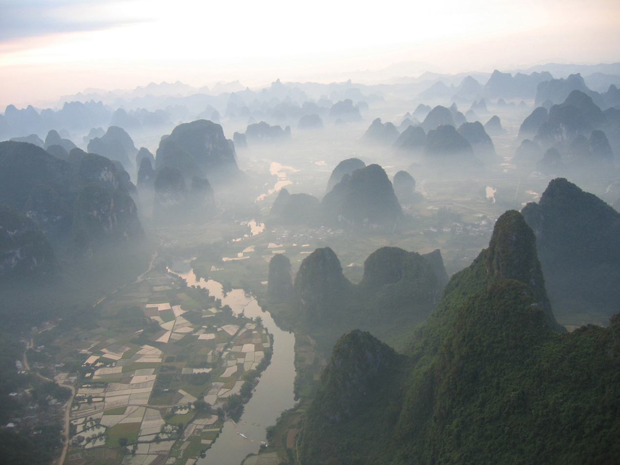 Yulong River Valley, in Southeastern province Guangxi (photo taken from a hot air balloon). Famous karst-towers, resulting from extrem, long lasting karstfication